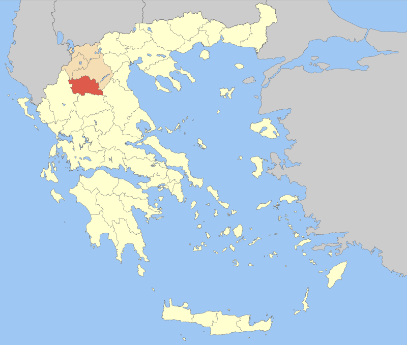 Locator map of Grevena prefecture (Νομός Γρεβενών) in Greece